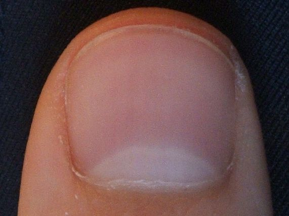 Nail (thumb)